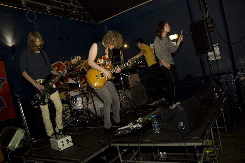 Cage The Elephant playing at Catch ITC in Jabez Clegg (Manchester) on the 21 October 2007 as part of In The City 2007 (ITC)